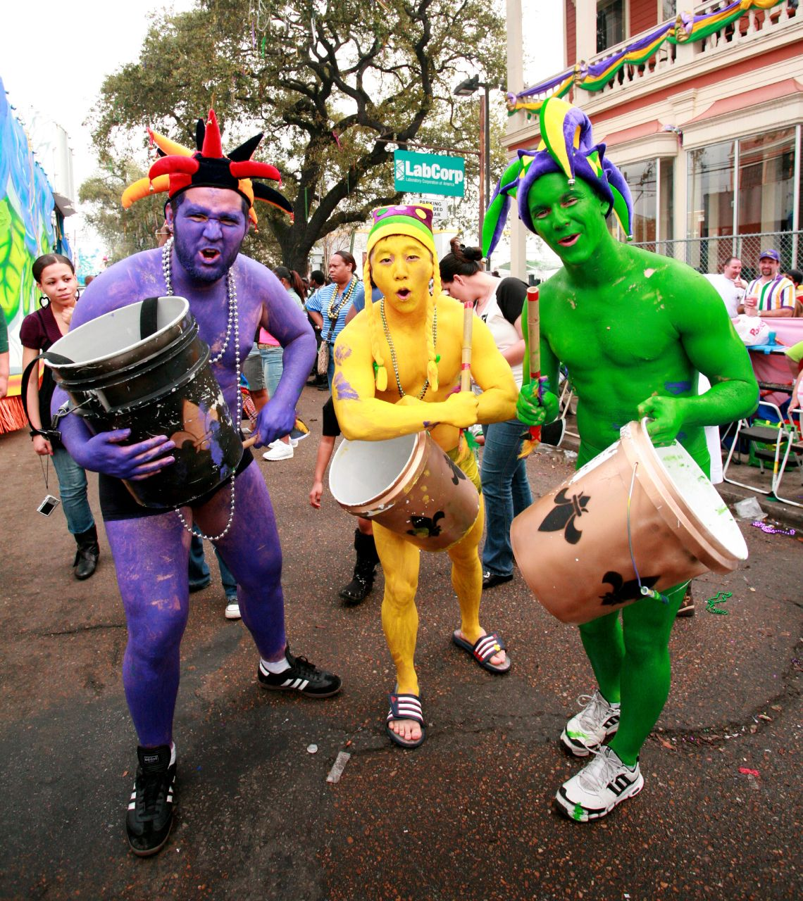 New Orleans Mardi Gras. Three revelers painted the colors of Mardi Gras.